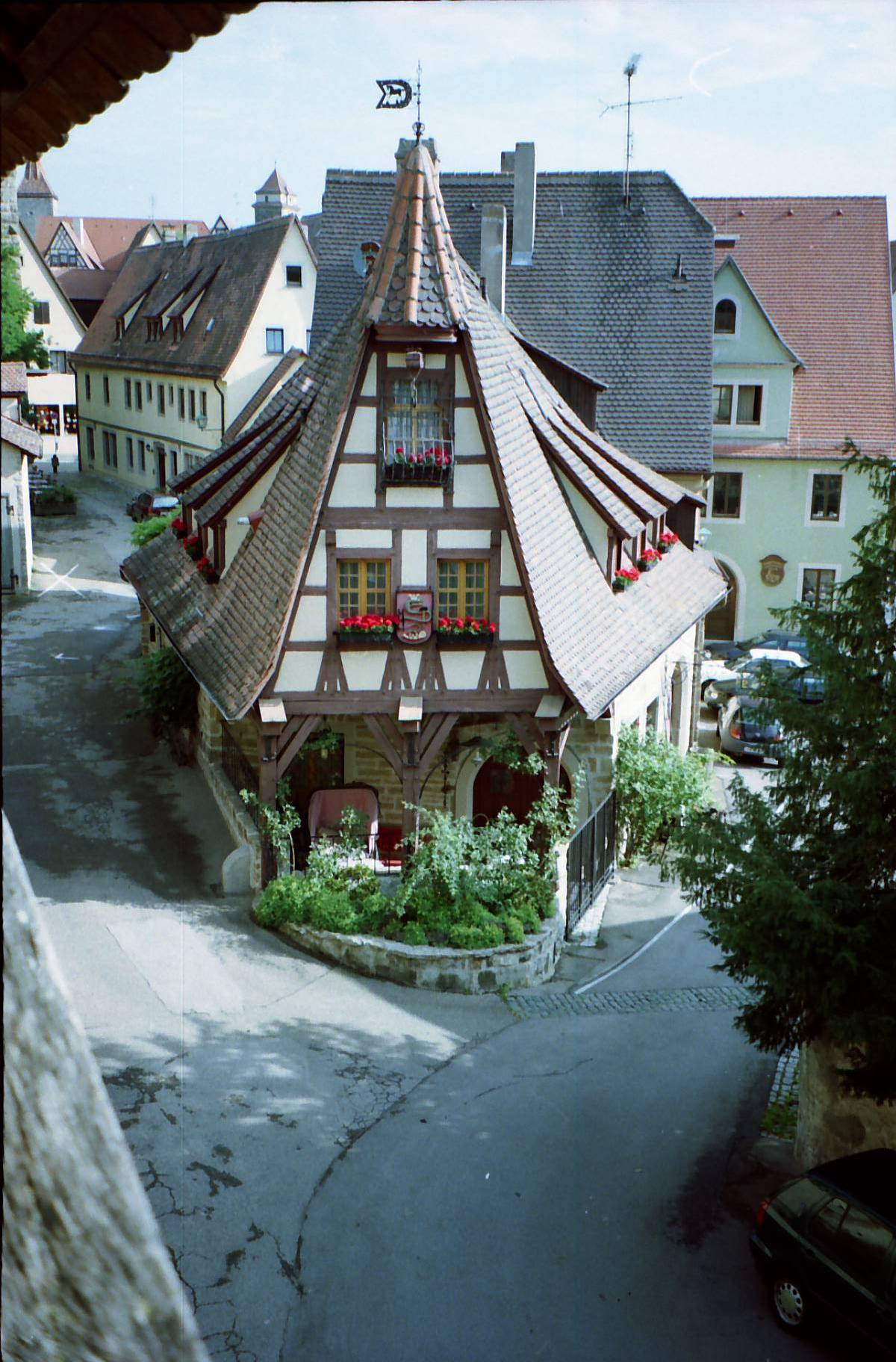 Gerlach's smithy